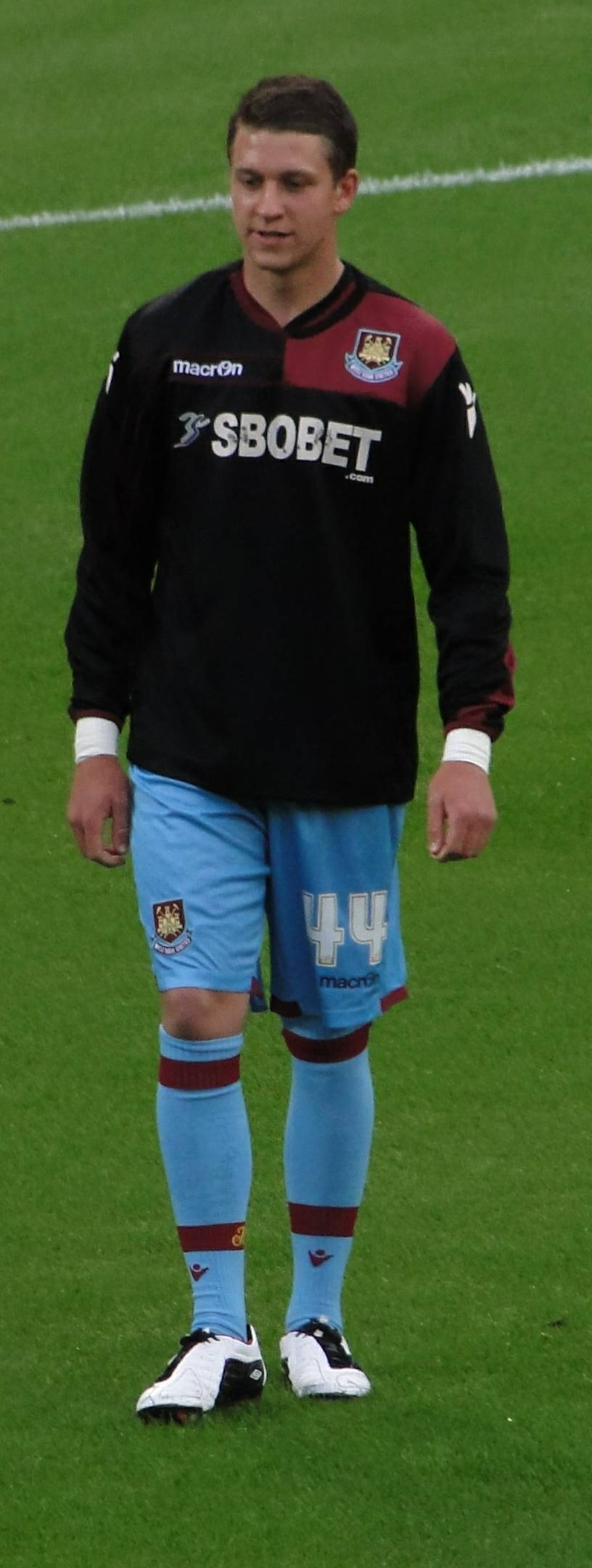 West Ham United footballer, Geroge Moncur, warming up before a League Cup game against Aldershot Town when he was an unused substitute